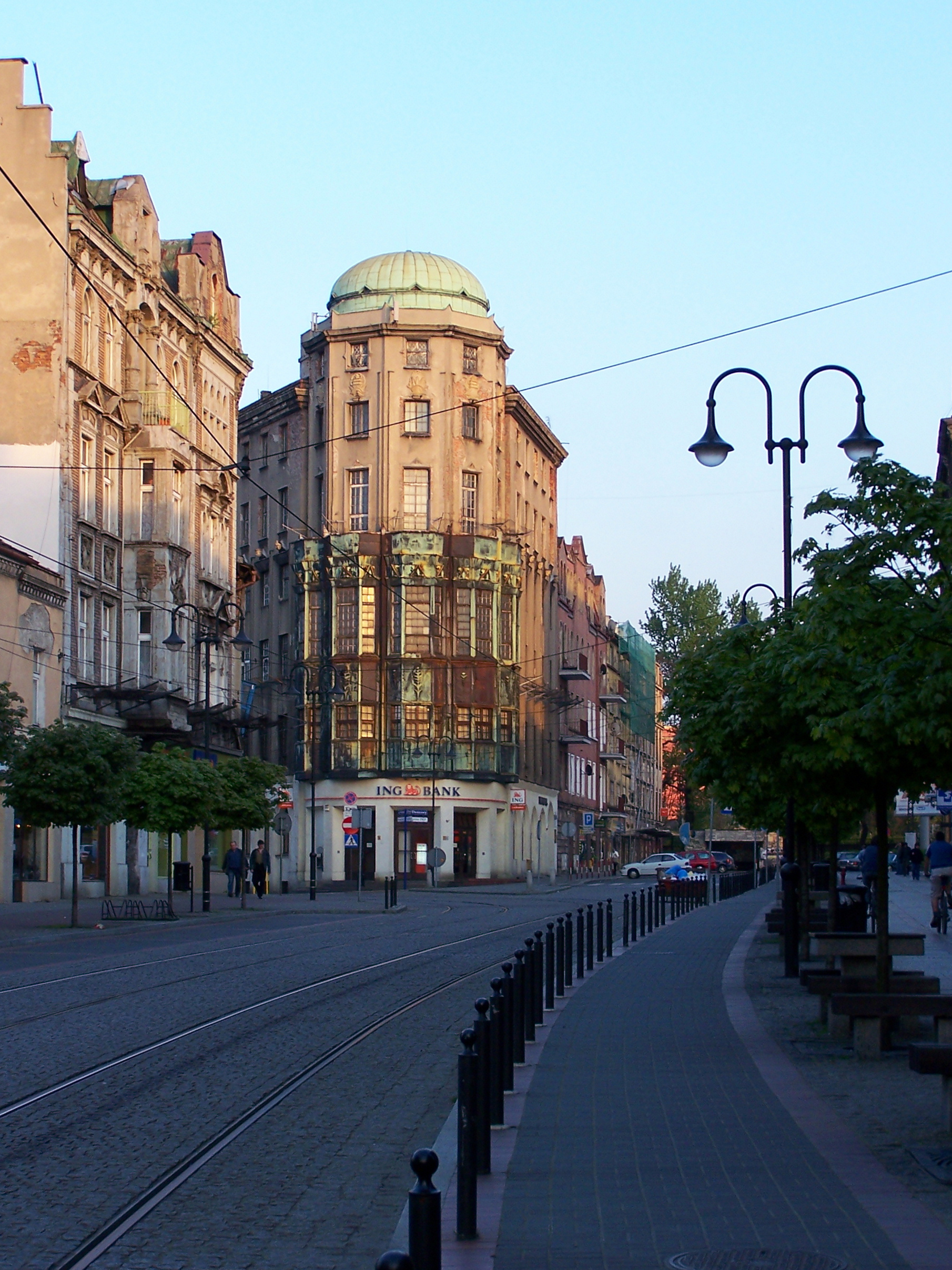 Freedom street with building of the “Admiral” in Zabrze.